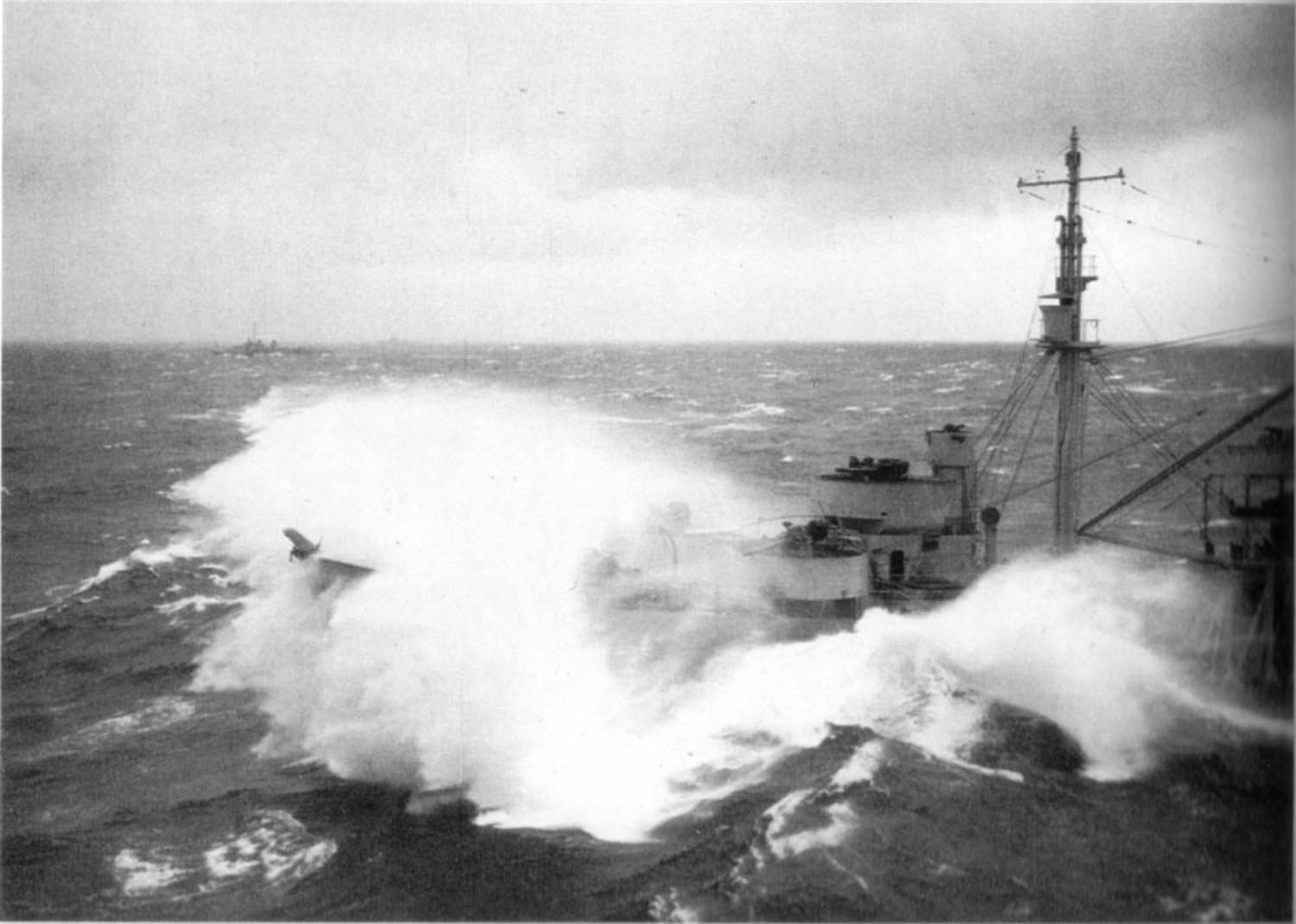 An oil tanker trying without success to move into refueling position on December 17, 1944